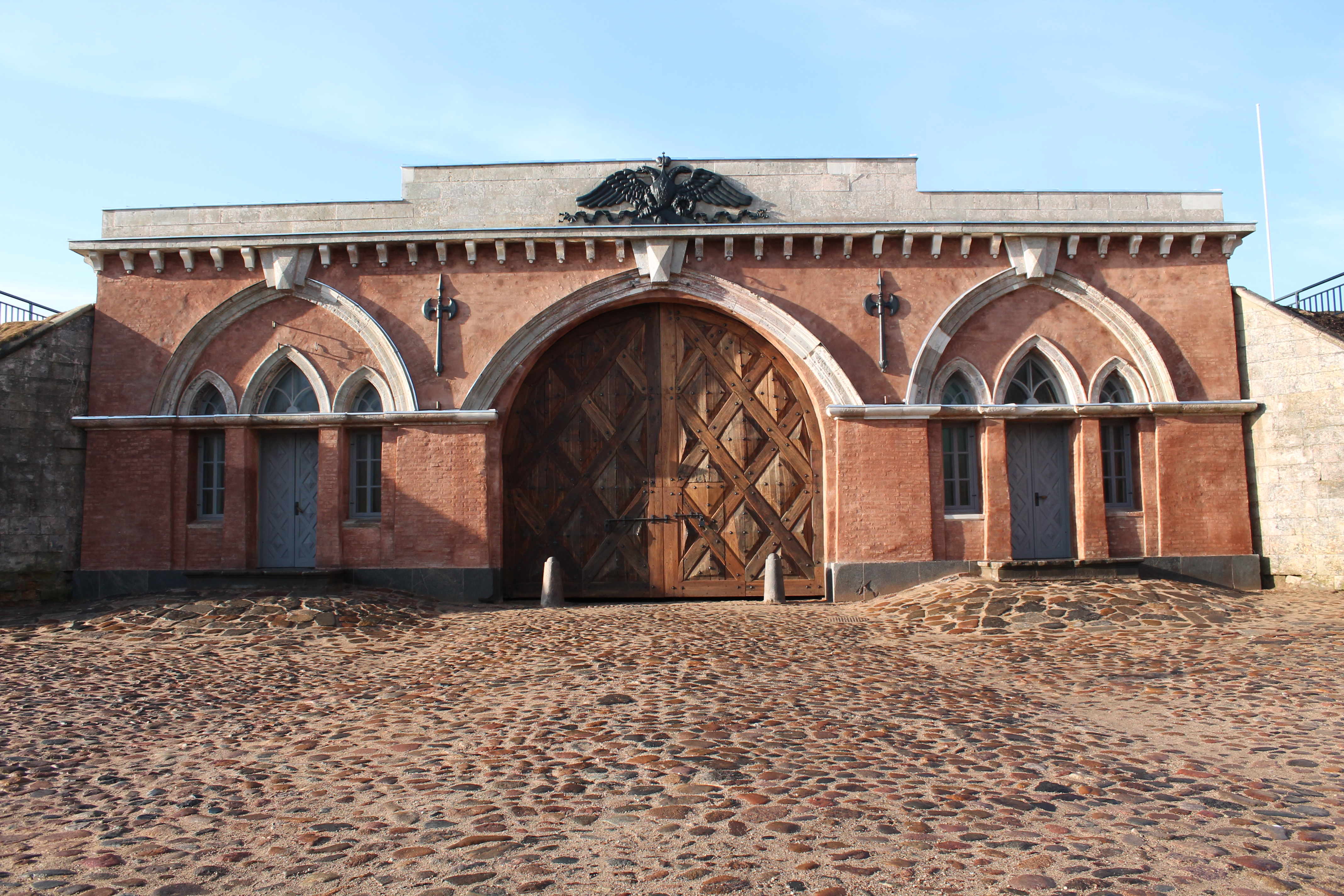 Inner facade of the Nicholas Gate in Daugavpils Fortress